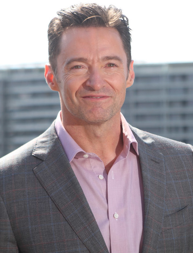 Hugh Jackman in 2019.jpg